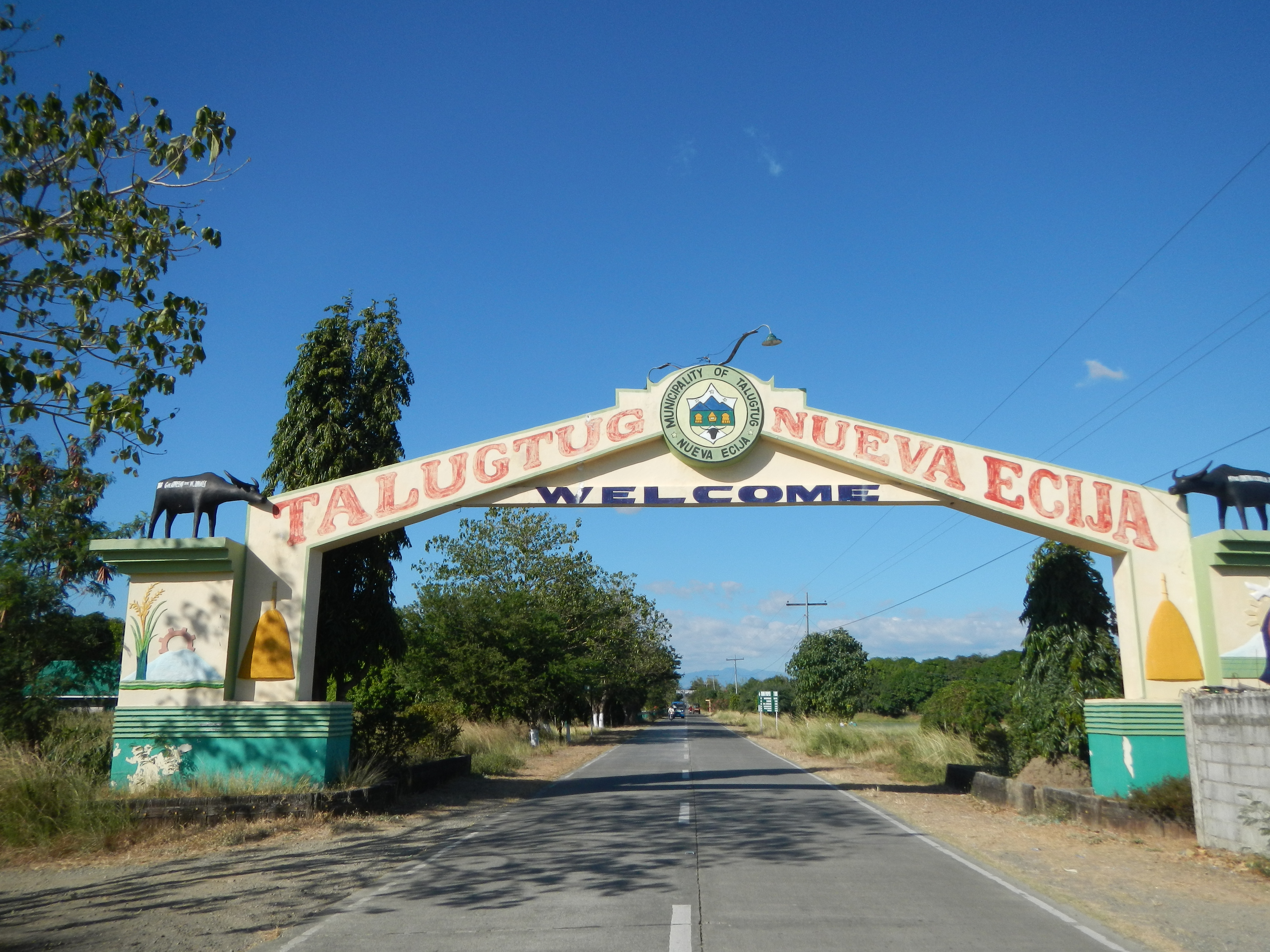 Talugtug, Nueva Ecija[1] is a fourth class municipality in the province of Nueva Ecija, Philippines.[2]Coordinates: 15°45'46"N 120°48'11"E Mayor: Caspillo, Quintino Jr. S. Vice Mayor: Pagaduan, Floro Jr. C. Sangguniang Bayan Members: Domingo, Freddie MONTA, Leo G. GAMIT, Benjamin Jr J. AGPALO, Gerry B. Cinense Edwin Sr C. DAR, Emilio C. FLORA, Carlito M. ANCHETA, Maximo Sr. B. Panagyaman Festival[3]65th Founding Anniversary, February 1, 2013[4]